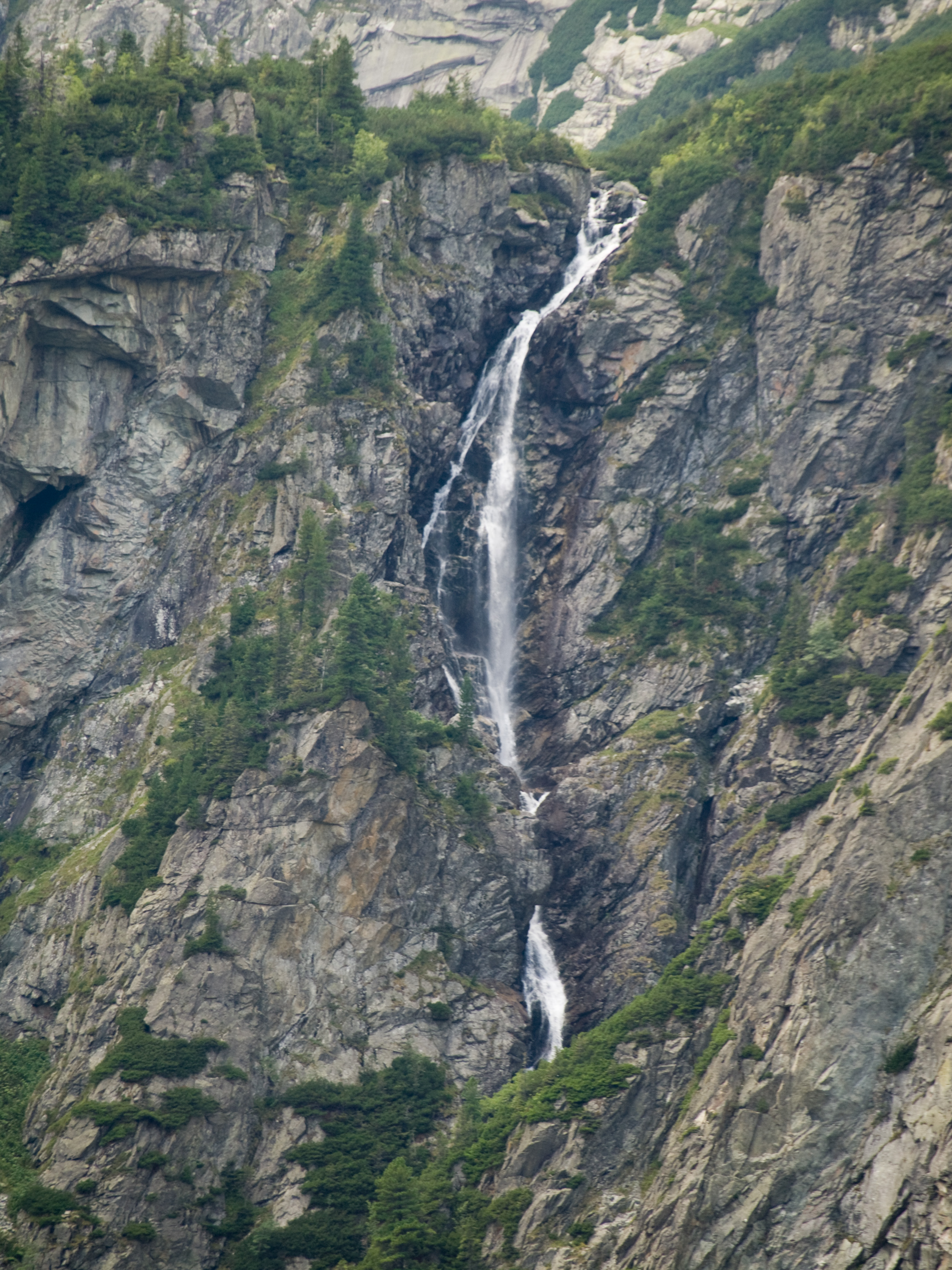 Ťažký vodopád